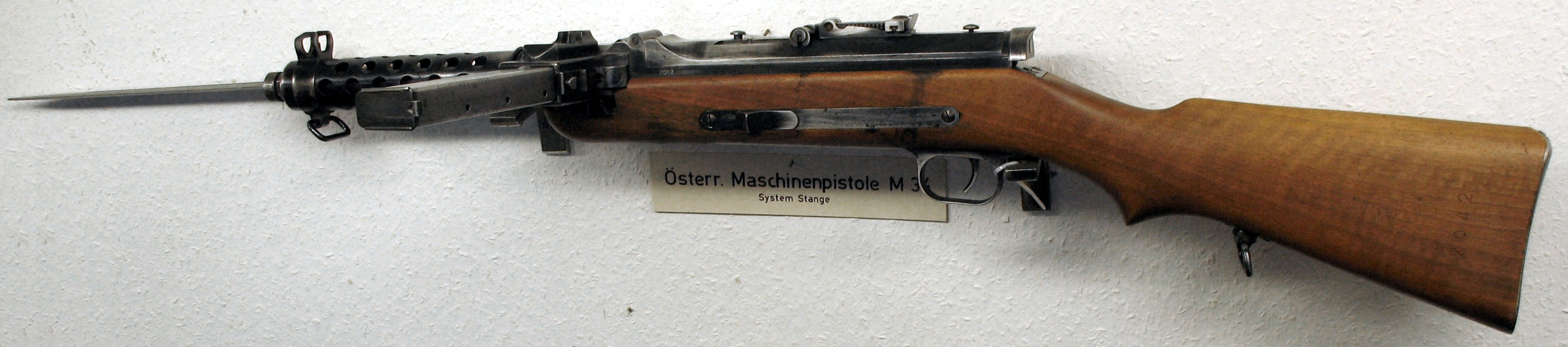 Austrian Submachine Gun MP34 in the High Fortress, Salzburg, Austria